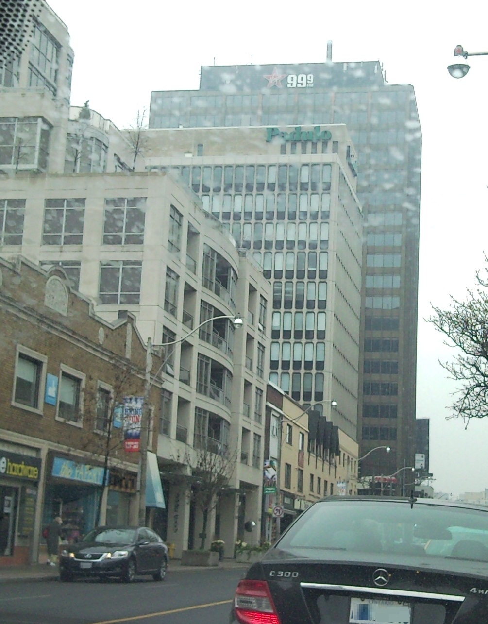 Astral studios of Newstalk 1010 CFRB, CHBM-FM (Boom 97-3) & CKFM-FM (99-9 Virgin Radio) photographed in Toronto, Ontario, Canada.